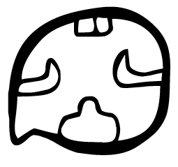 Maya:glyph:logogram:calendric:Tzolkin:Day11:Chuwen:codex+W:v01. Img created by CJLL Wright.